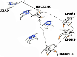 Dutch goal against Brazil in 1974 FIFA World Cup.